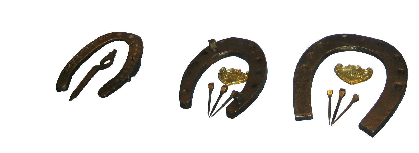 Some horsehoes of WWI. Left: horseshoe with frost-nail (in coll. Mémorial de Verdun)